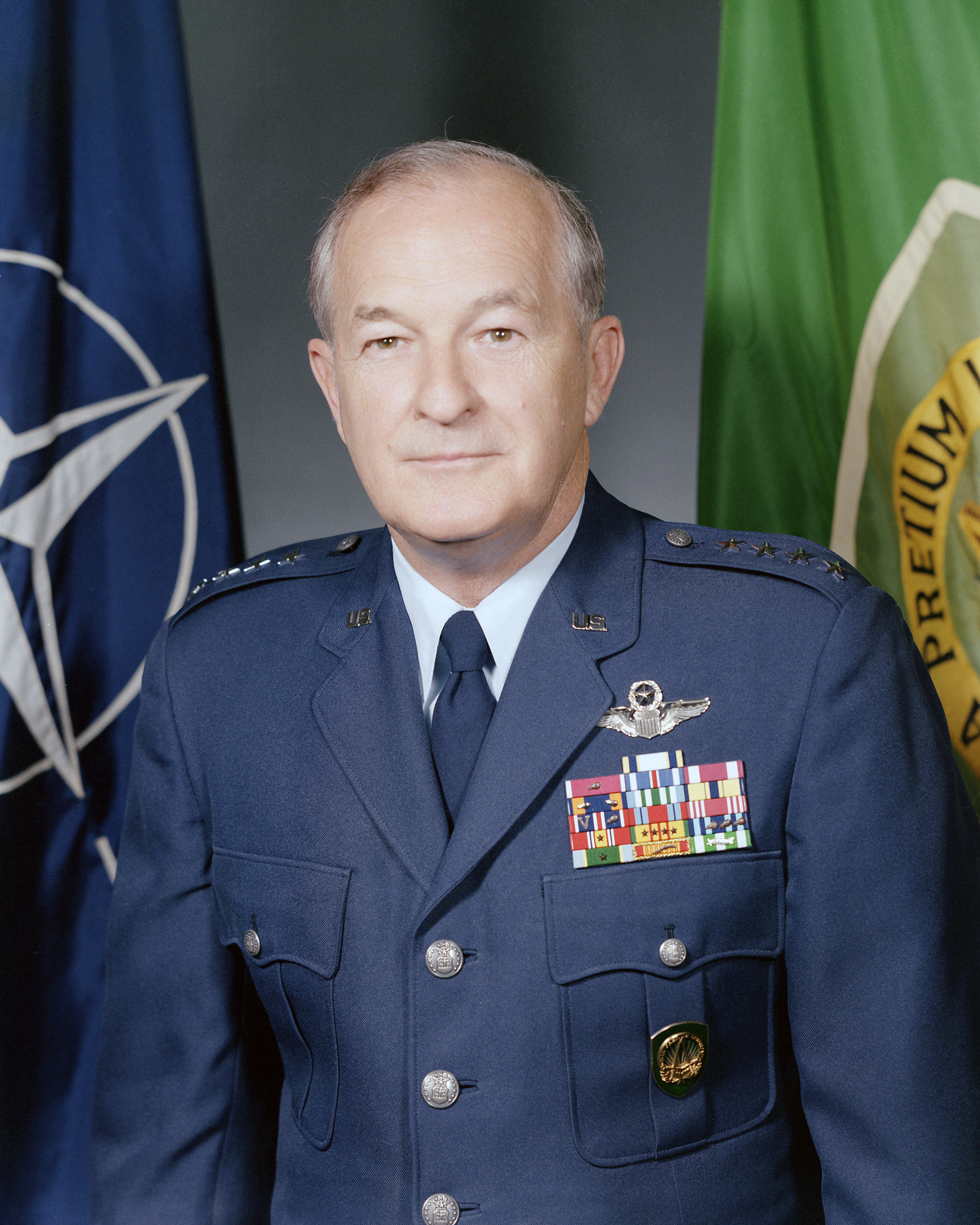 Robert H. Reed, USAF